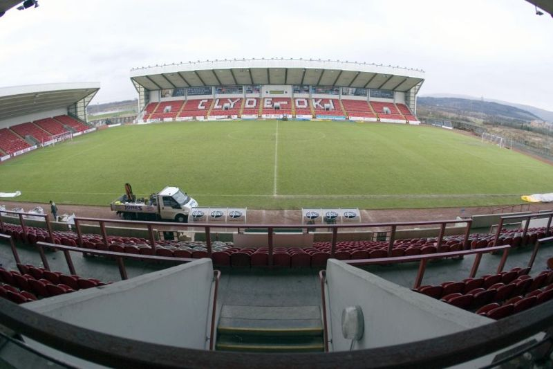 Photo of Broadwood Stadium taken by Ck12